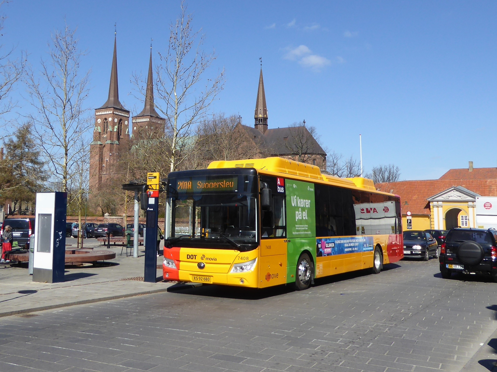 Movia bus line 201A at Stændertorvet and Roskilde Cathedral in Roskilde in Denmark. The day before all the local bus lines of Roskilde got electric Yutong E12LF buses like this.